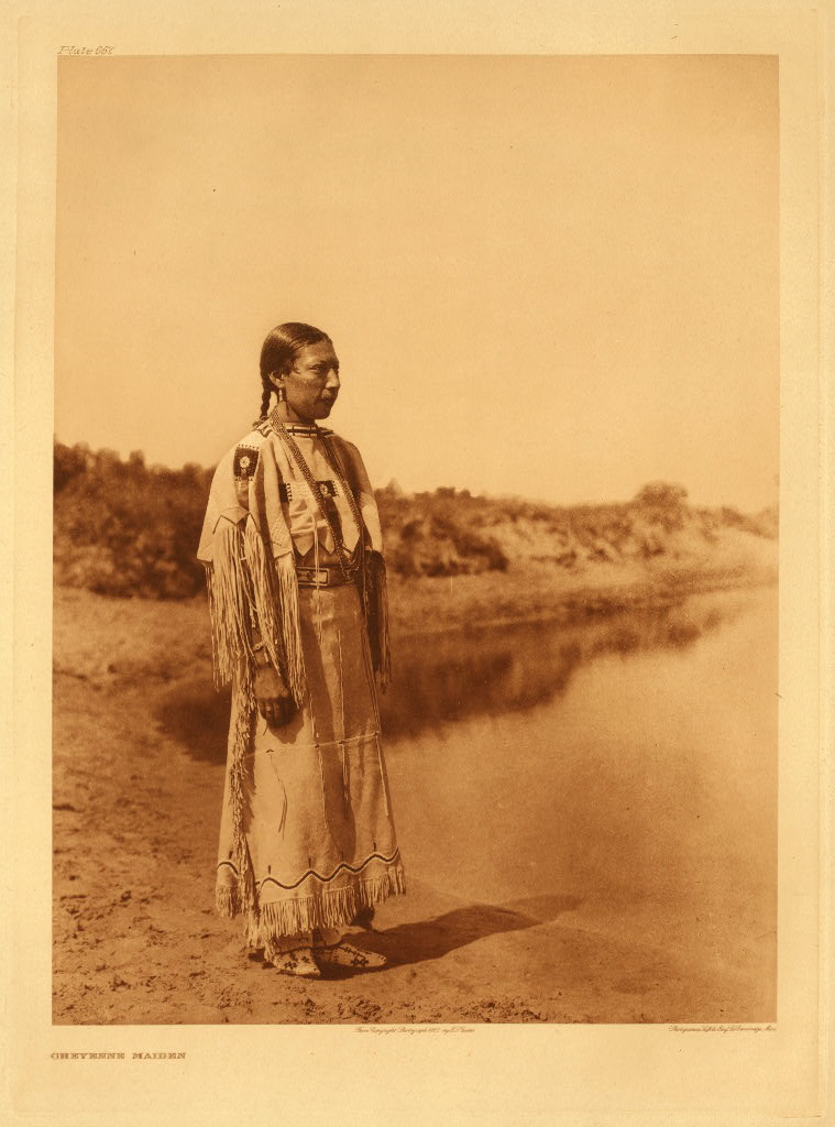 Cheyenne maiden photographed by Edward S. Curtis in 1930. Cheyenne maiden,1930.